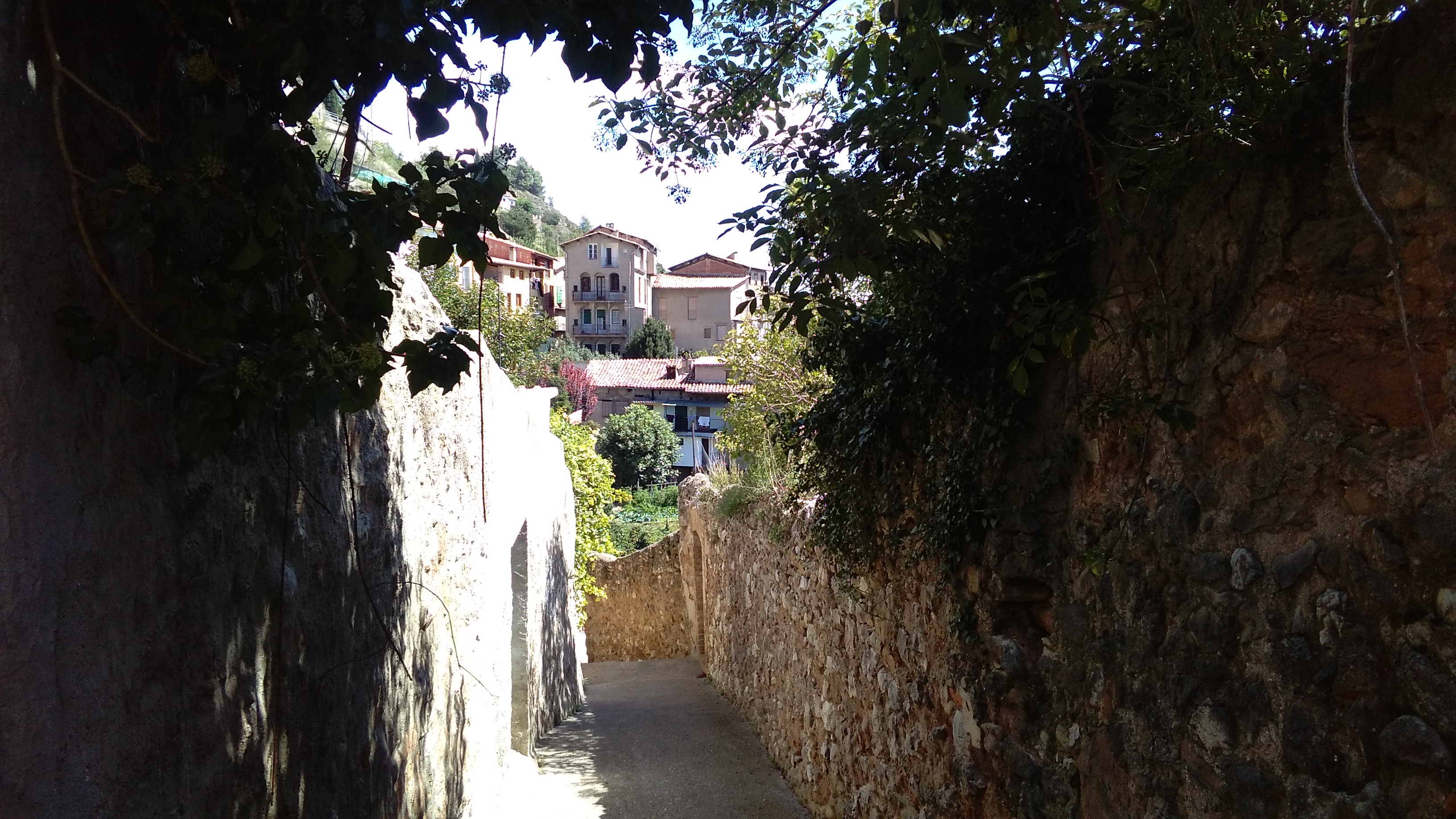 Callissot de la Gratella, Berga